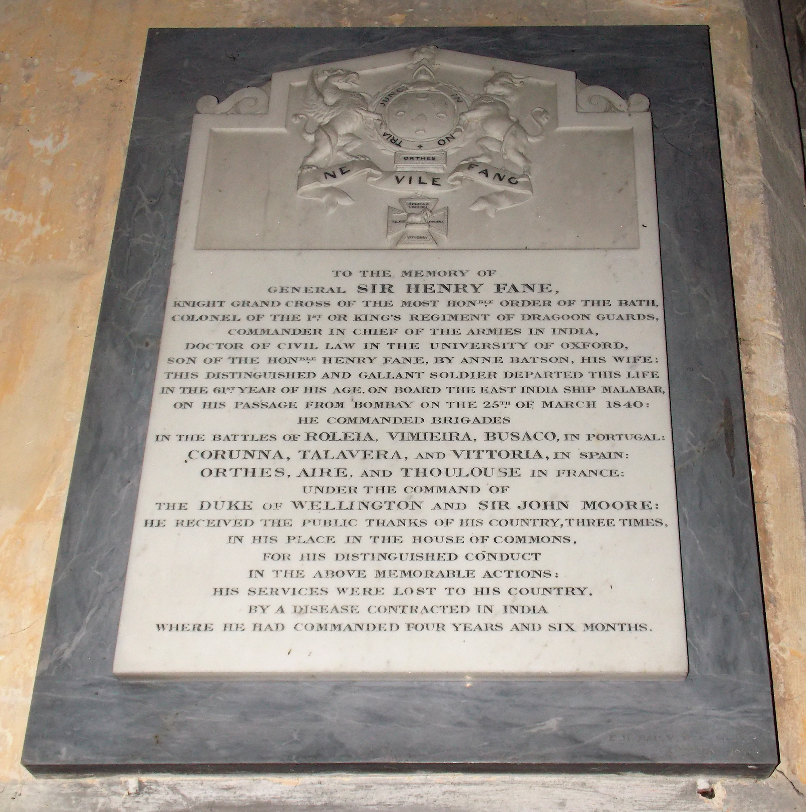 Fulbeck St Nicholas - plaque to Sir Henry Fane